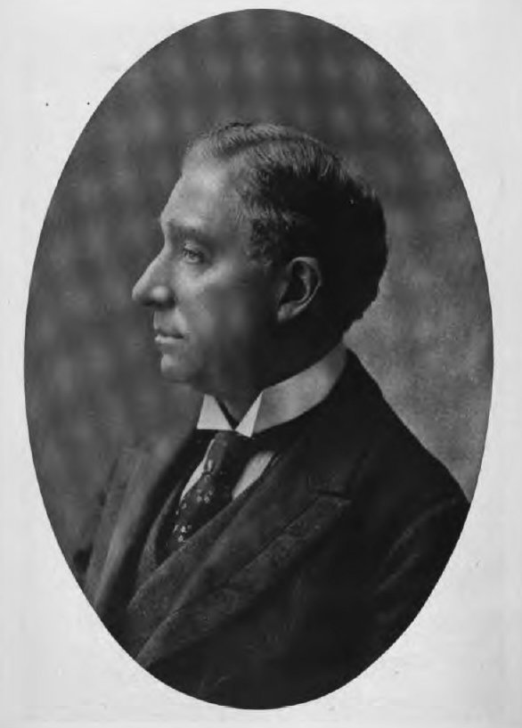 Photograph of William Bourke Cockran (1854-1923) US Representative from NY